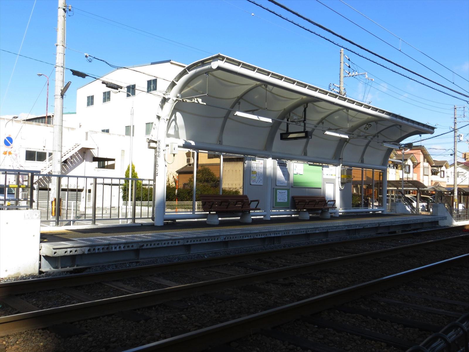 Platform from Ishizu-Kita Station (HN27), Hankai Line, Nishi-ku, Sakai.